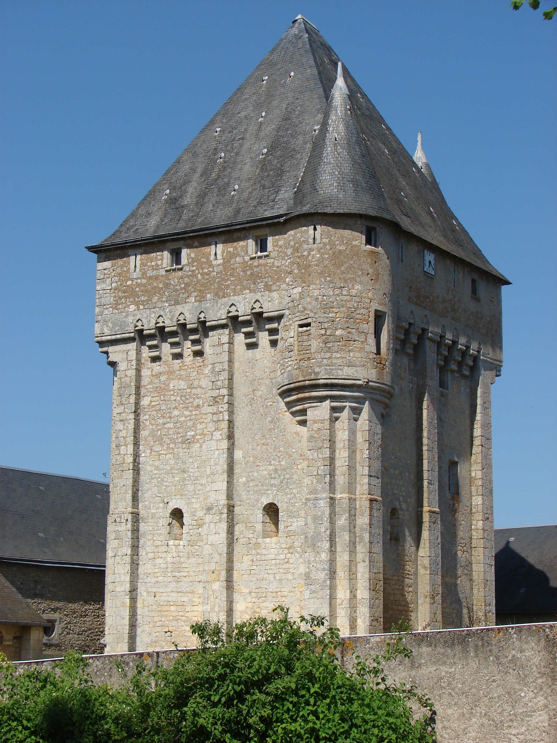 Castle of Migné-Auxances Object location46° 37′ 49.4″ N, 0° 18′ 28.99″ E